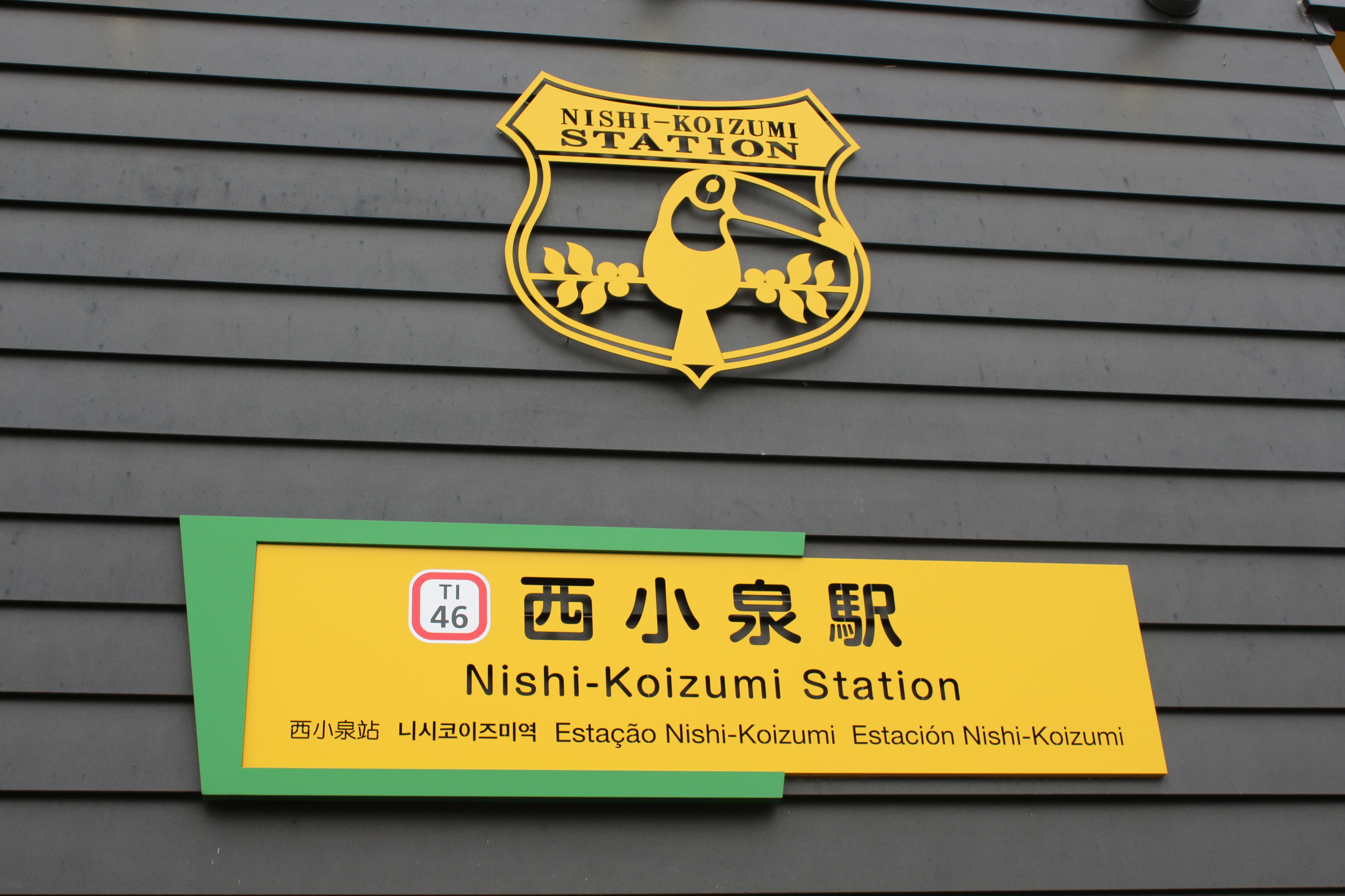 Nishi-Koizumi Station signboard Canon EOS Kiss X7i